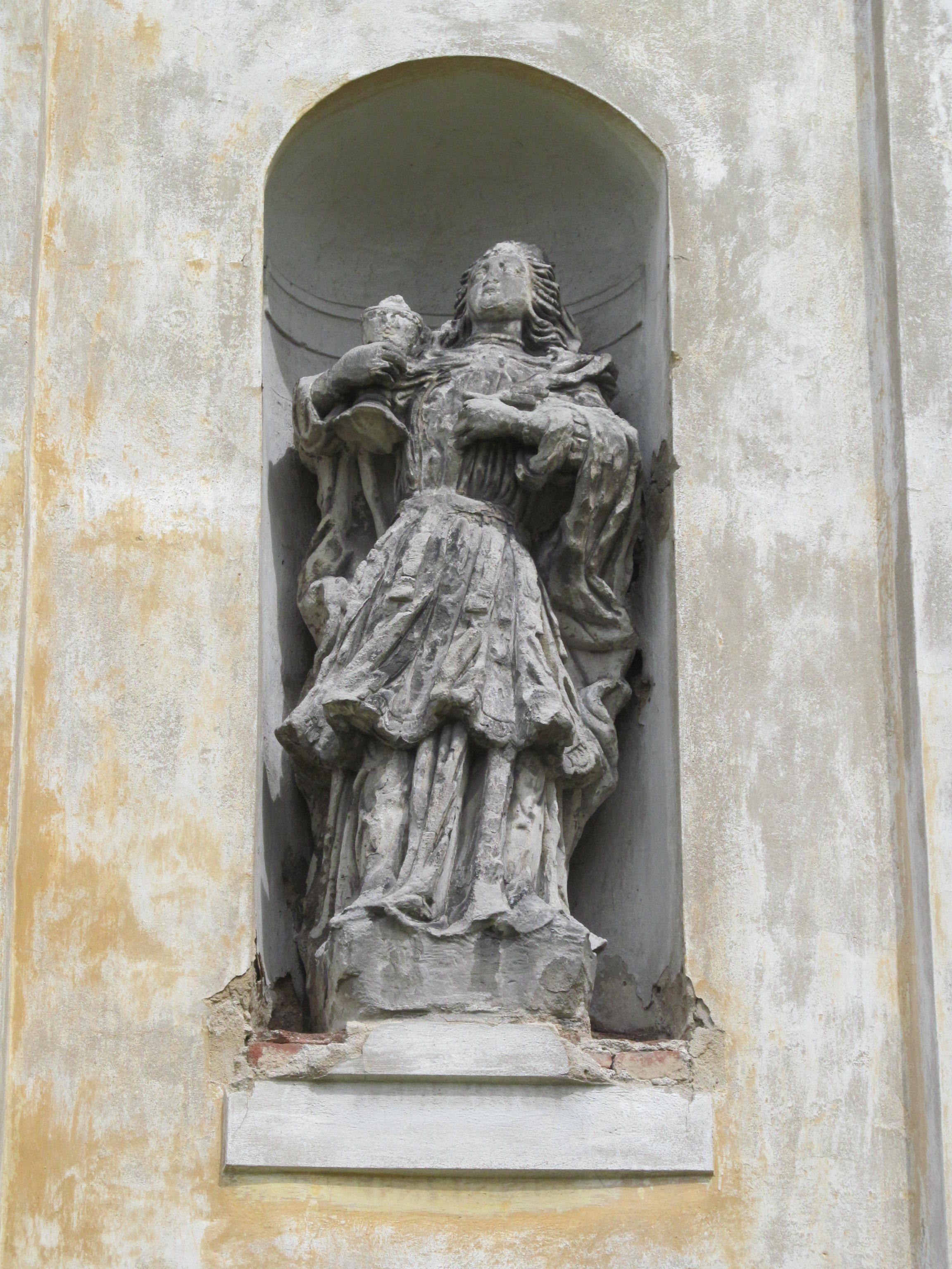 Statue of St. Barbara on frontage of the church in Bořislav